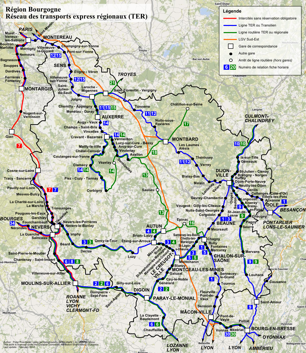 Region Bourgogne, regional transport network (TER)